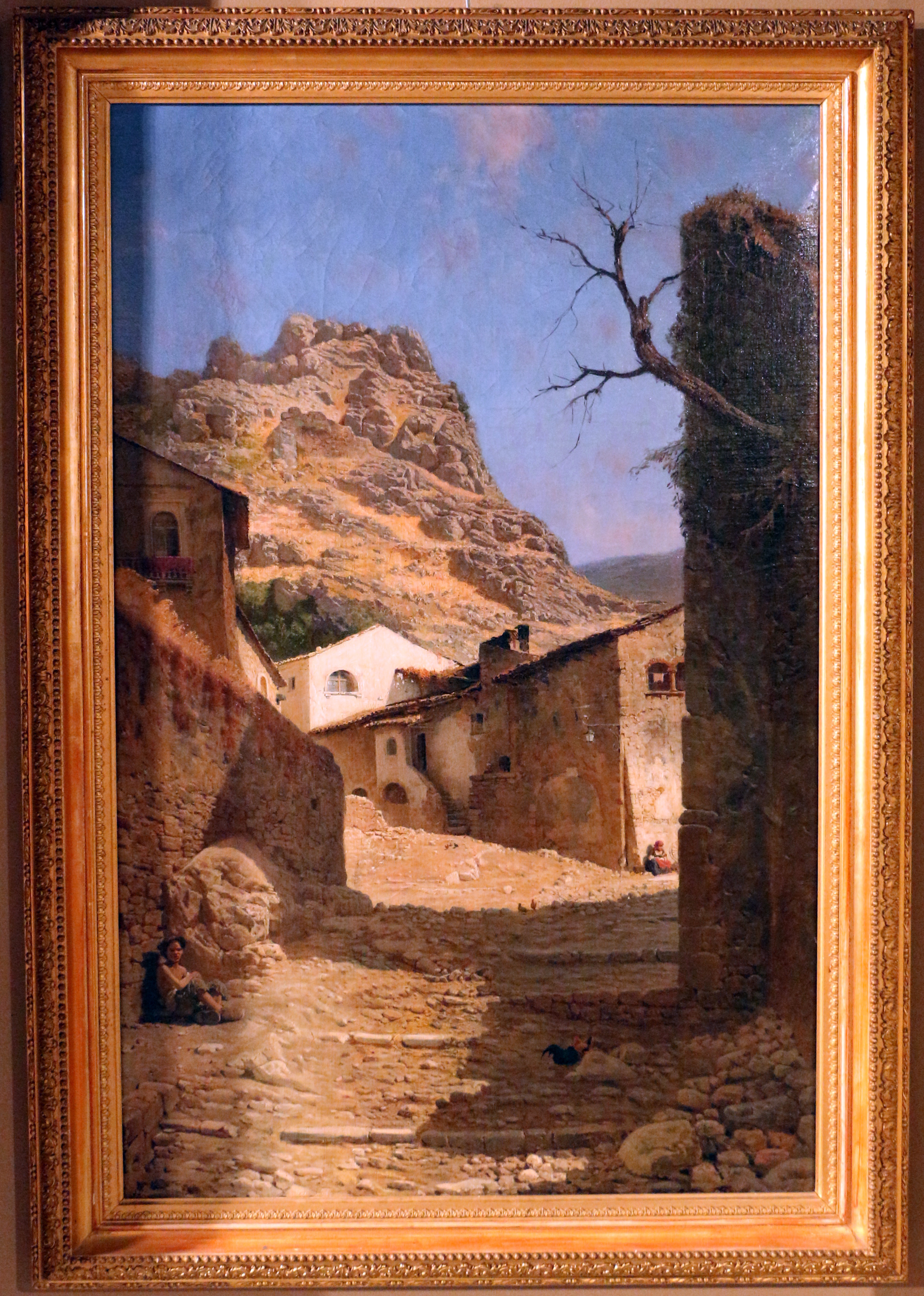 Il Tesoro d'Italia (exhibition at Expo 2015)